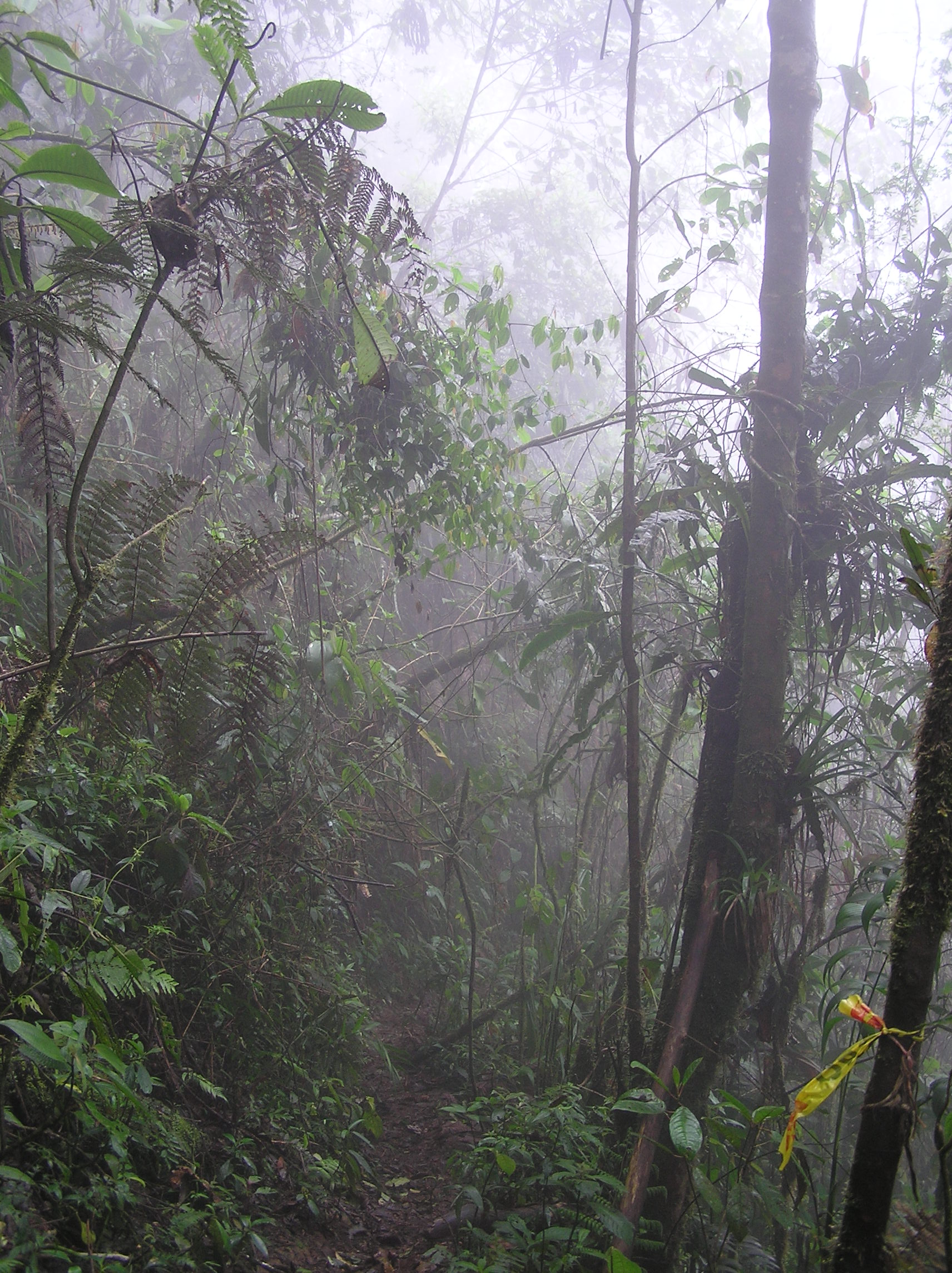 Selva Húmeda Trópical, Farallones de Cali, Colombia